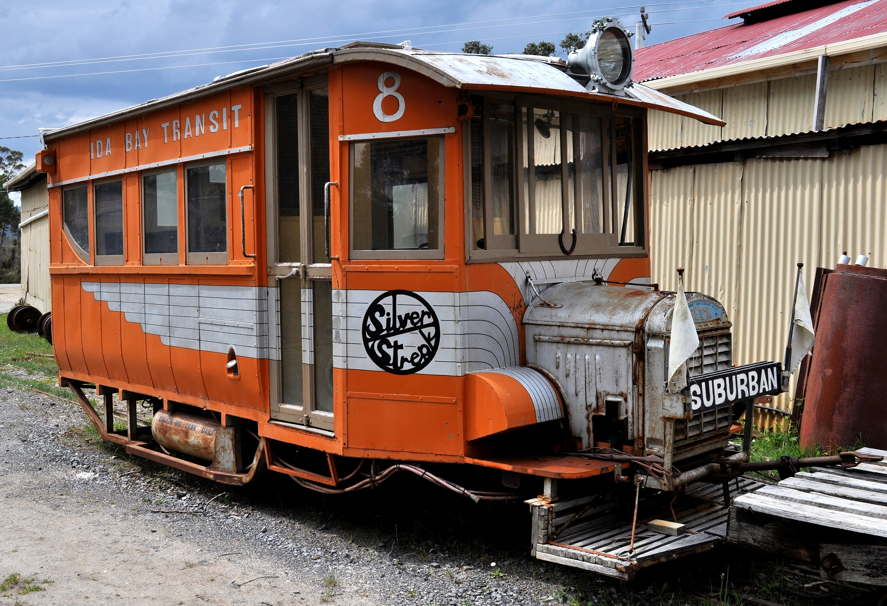 Ida Bay Railway's railcar no 8 "Silver Streak" at their depot.